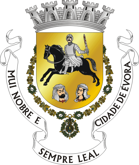 Crest of Évora municipality, Portugal